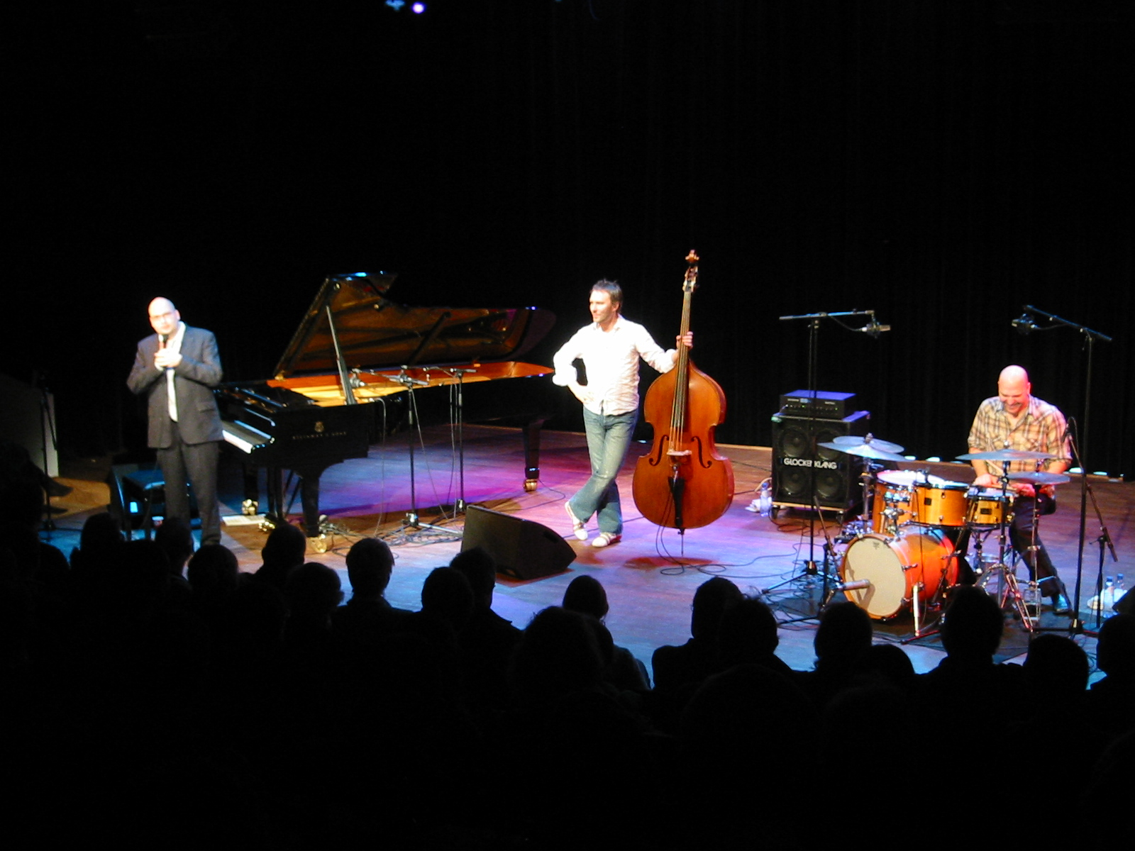 Reid Anderson - bass Ethan Iverson - piano David King - drums